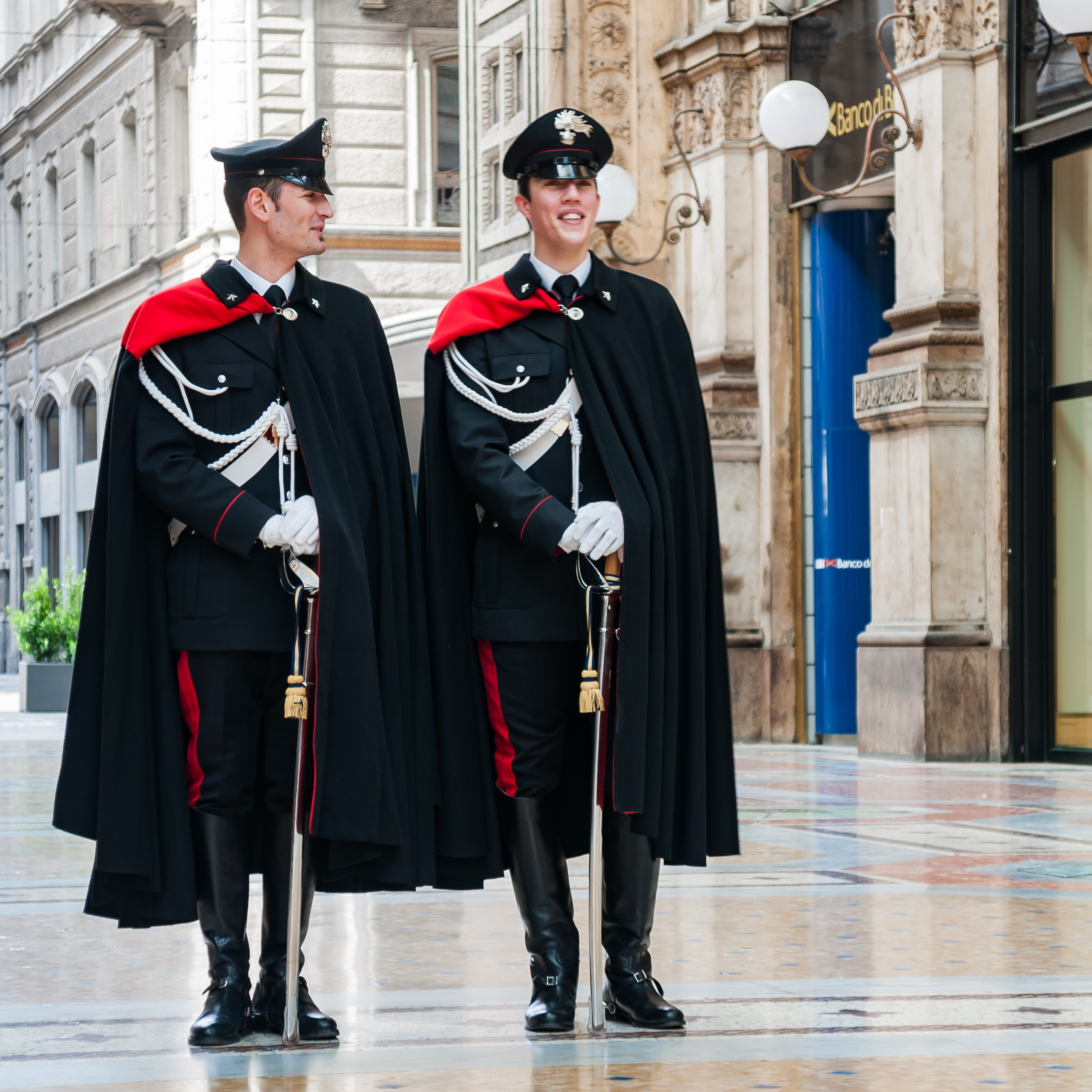 Milan, Italy: Carabiniere with capes in the Galleria Vittorio Emanuele II.